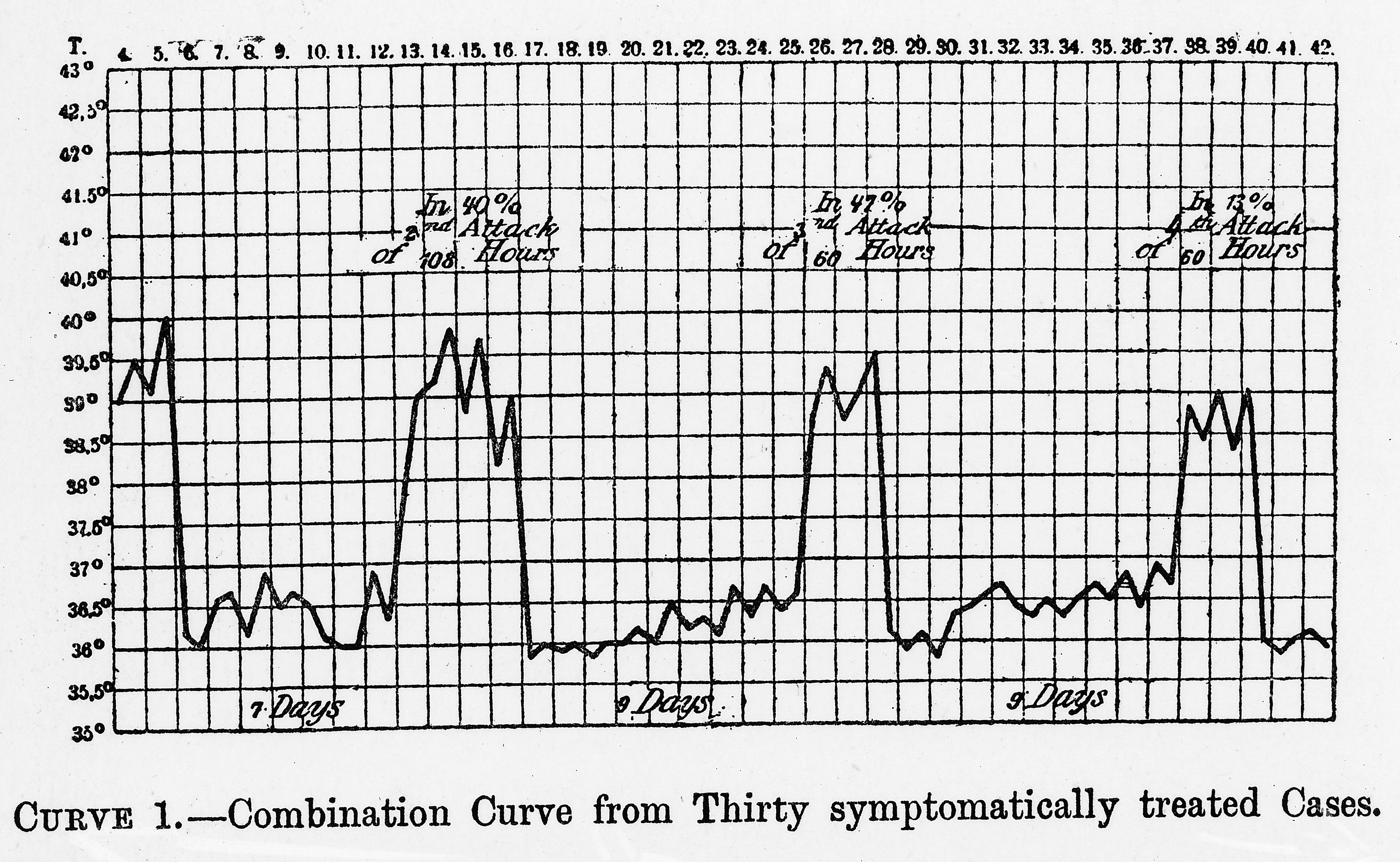 Relapsing fever: temperature curves of cases treated with 'atoxyl'. Composite curve based on fourteen cases. General Collections Keywords: Arsenic; Therapeutics; Syphilis